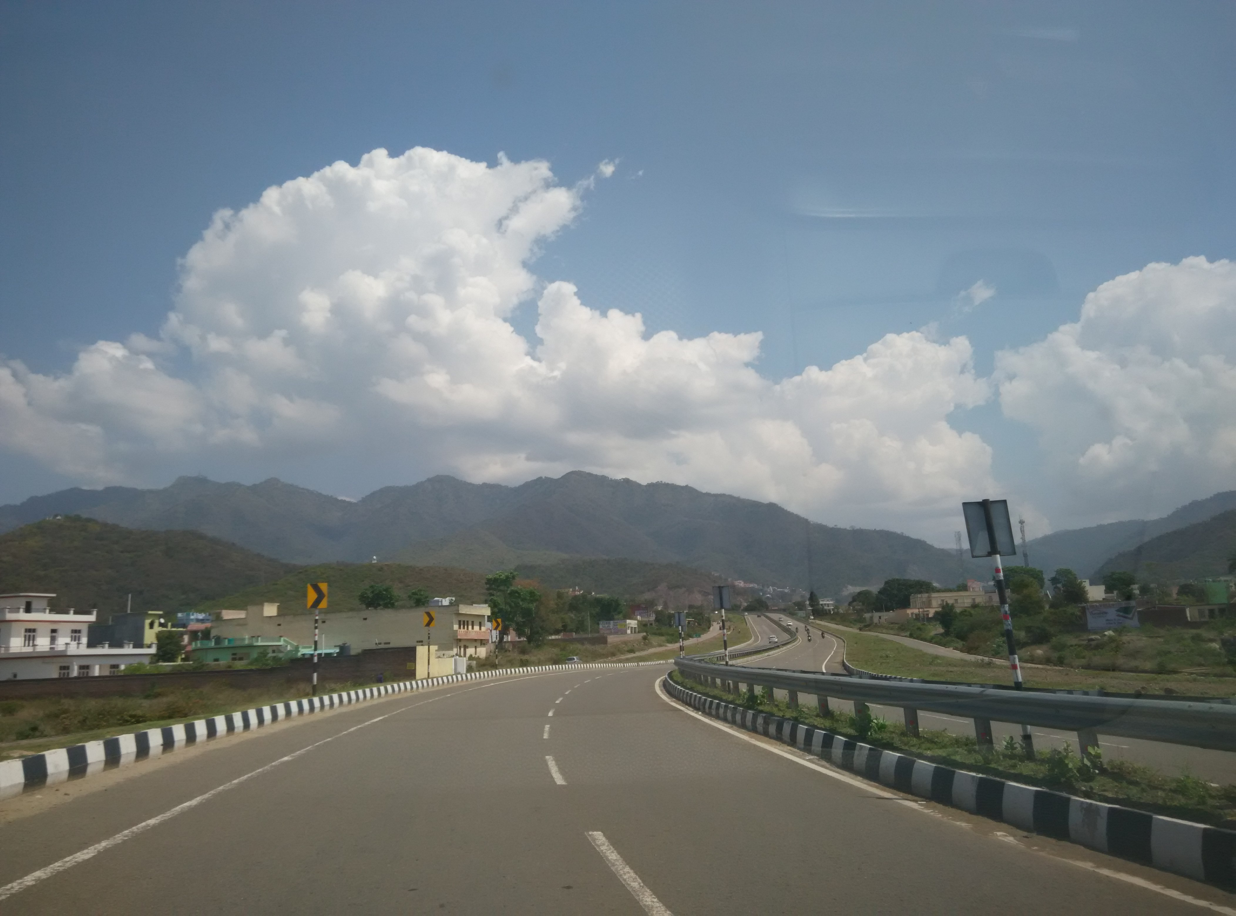 Himalayan Expressway, National Highway 22, Hindustan Tibet Road, Village Tipra, Panchkula, Haryana